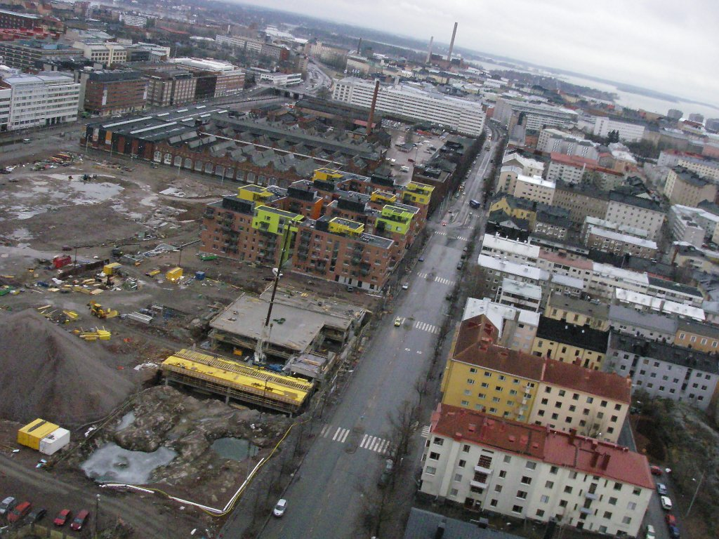 Street Aleksis Kiven katu in Helsinki from air